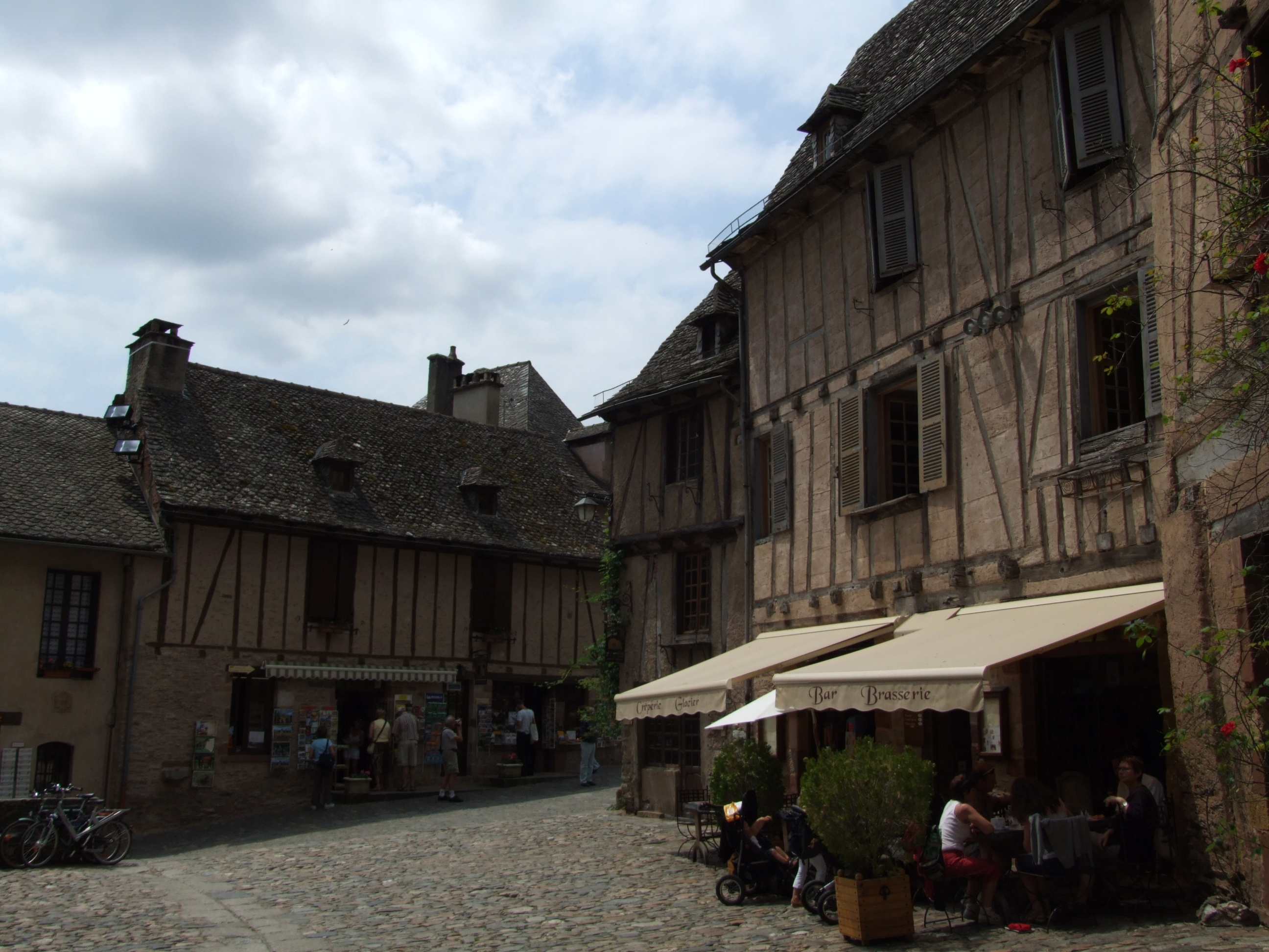 Conques, Aveyron, FRANCE